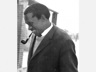 Anton Lembede first president of anc youth league (1947–1947